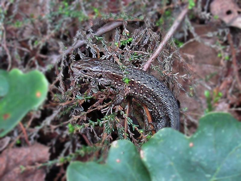 Zootoca vivipara (Viviparous lizard), Gennep, the Netherlands